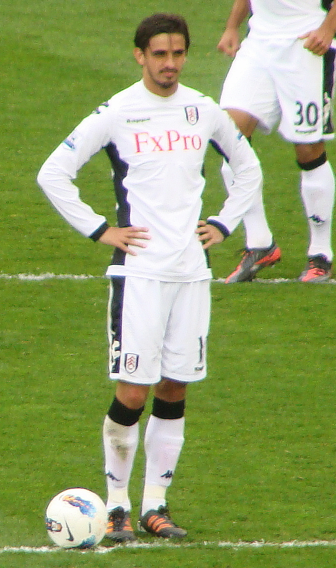 Clint Dempsey (left) stretches while Bryan Ruiz (center) stands at the center circle. Steve Morison to the right.